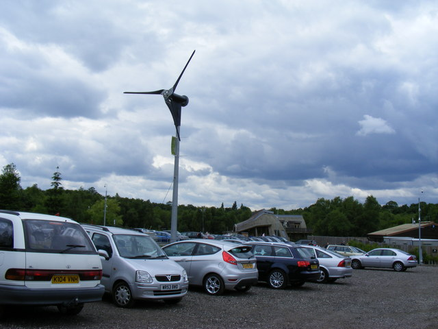 Wind Turbine Shorne Wood Country Park The park visitors centre can be seen in the distance